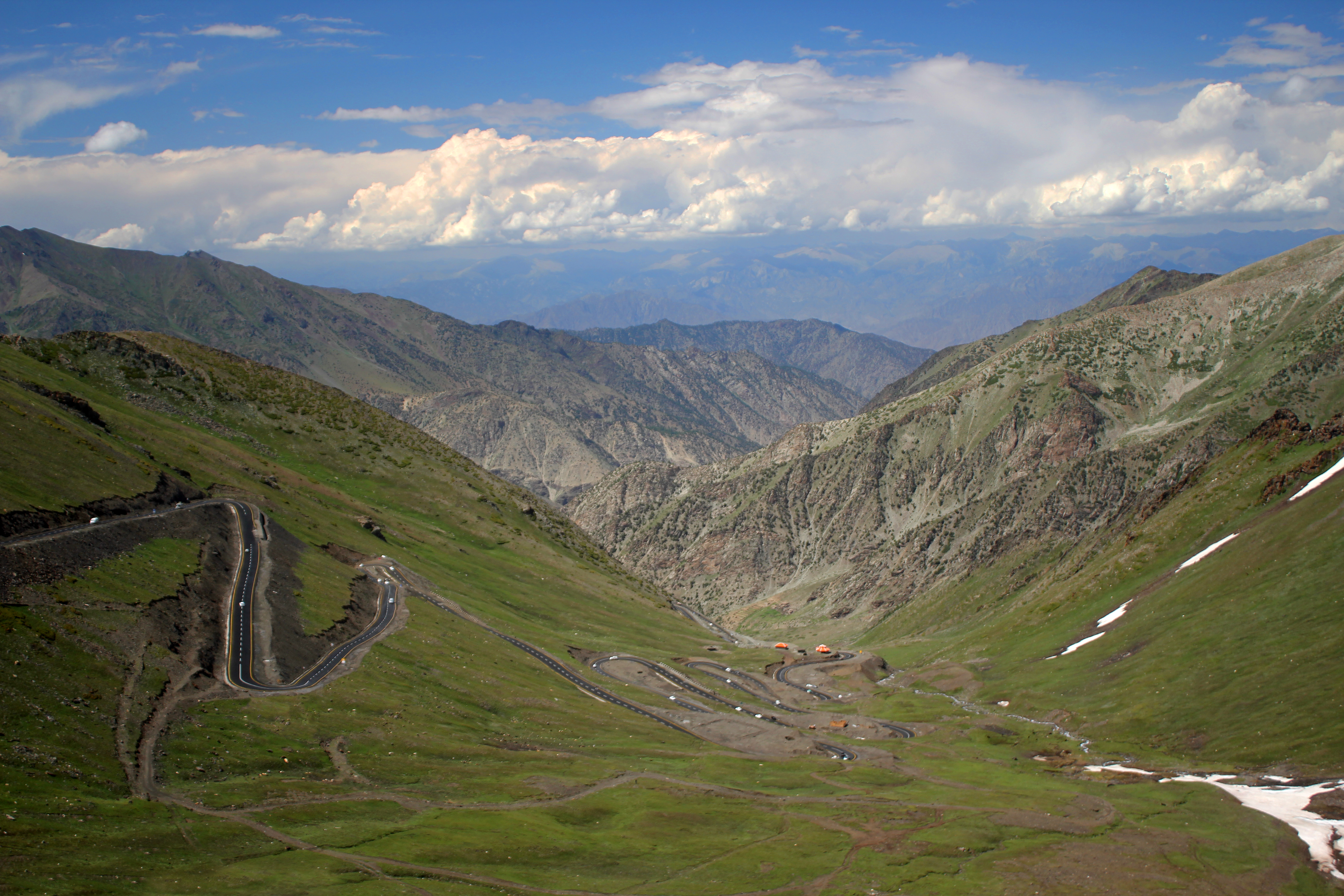 Other side view of Babu Sar Top, National Highway 15 leading to Chilas, Gilgit-Baltistan